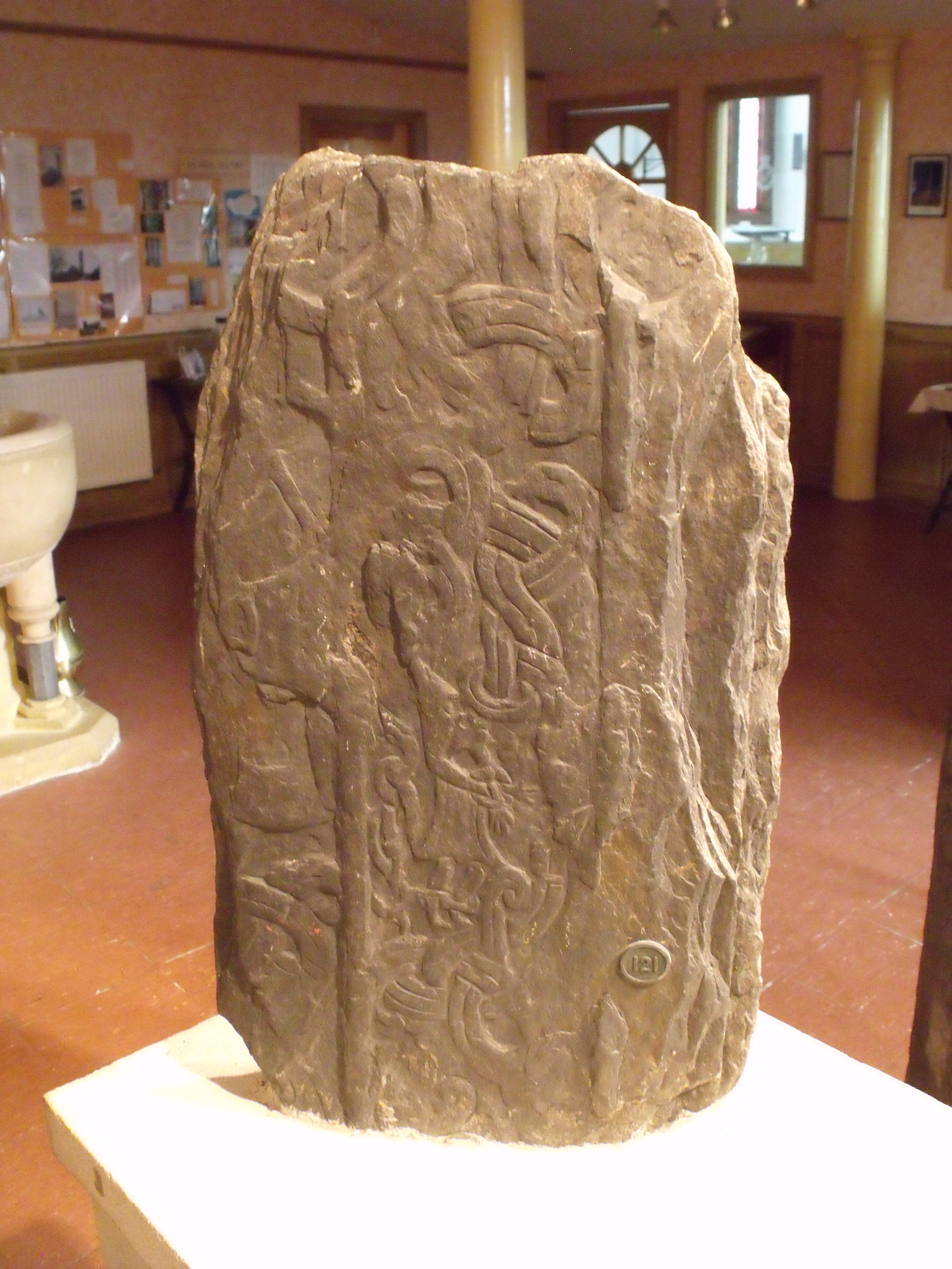 Cross No.121, side B, Kirk Andreas (IOM). Sigurd's foster brother bitten to death.